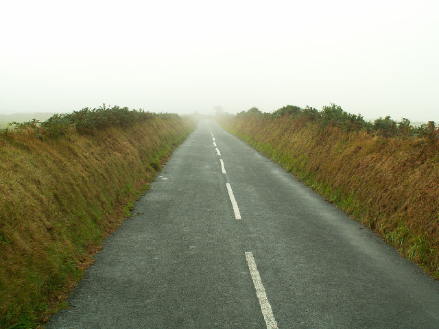 Misty morning on the Begoade Road. This was once part of The Clypse Course, a forerunner to the TT Race Circuit. It is a quiet lane north of Onchan which leads up to Creg ny Baa. The hedges have been recently trimmed.